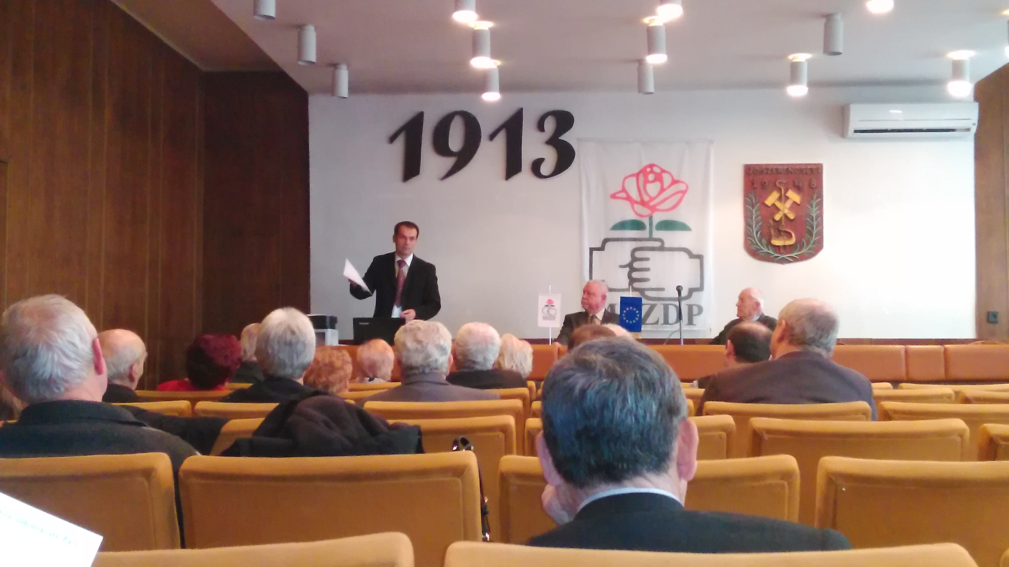 The 50th Congress of the Social Democratic Party of Hungary (MSZDP).